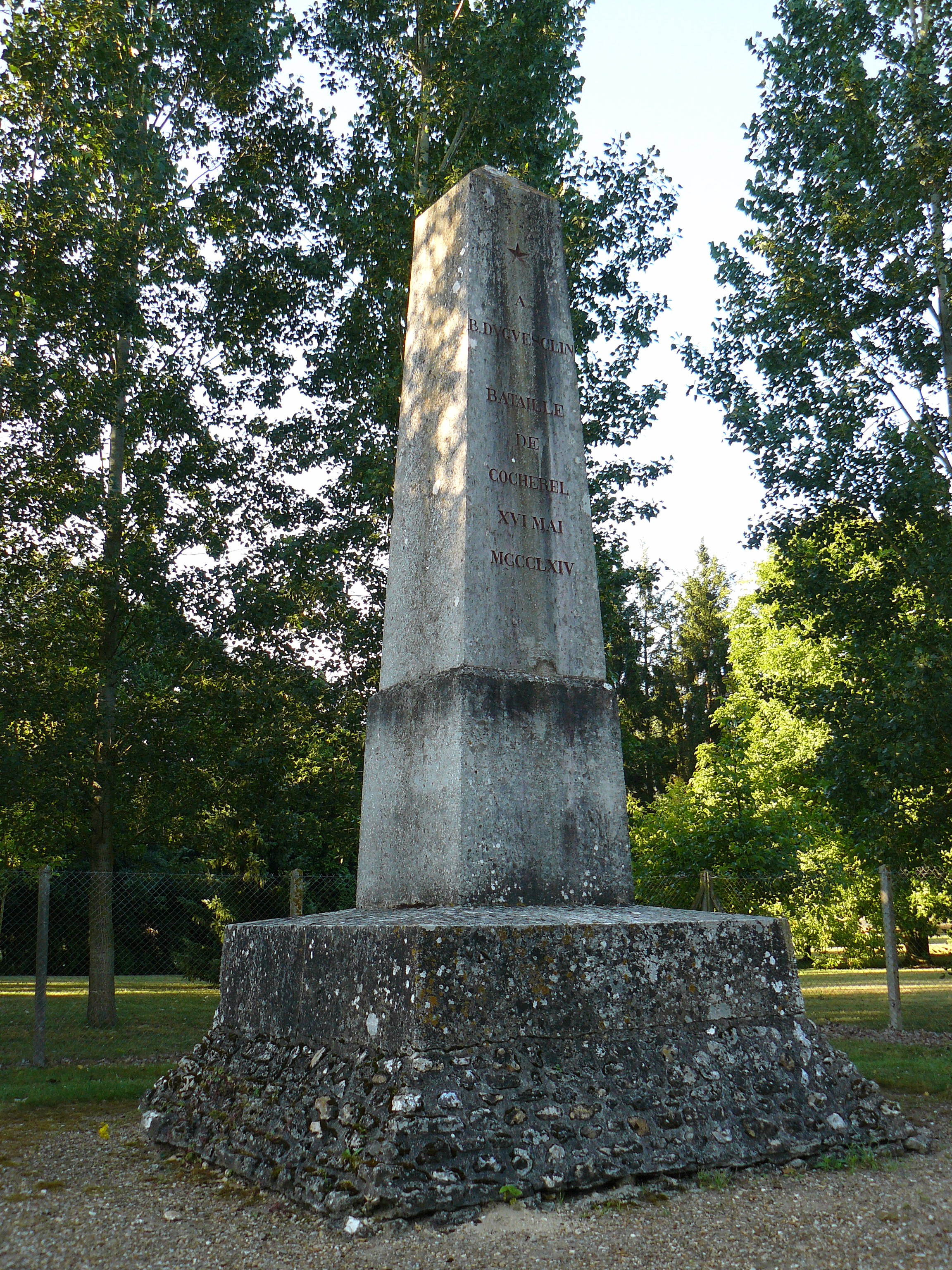 Monument remembering the Battle at Cocherel (Hardencourt-Cocherel, Eure, Normandy, France) in 1364 ; dedicated to Bertrand du Guesclin